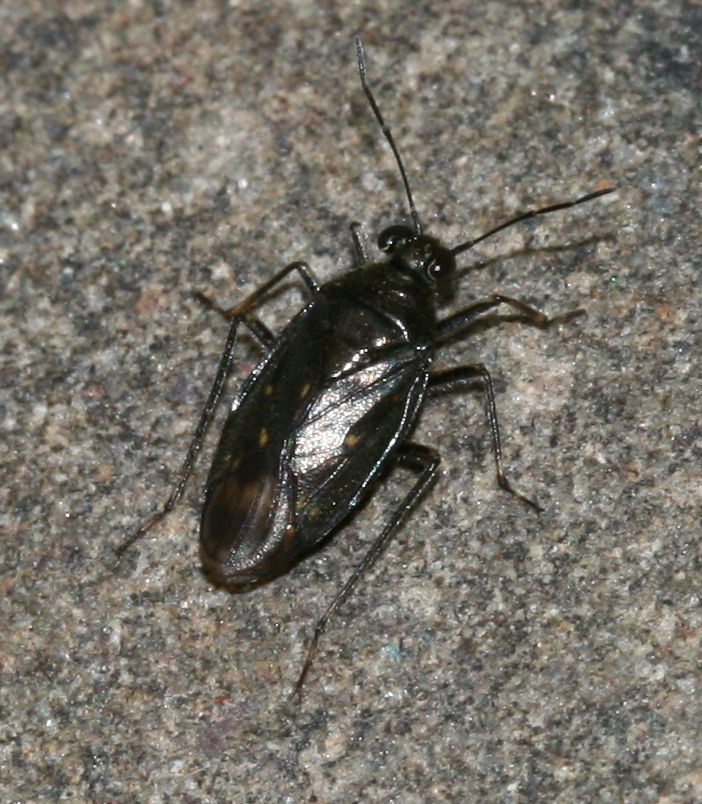 Cockburn Mill Ford, Berwickshire, Scotland